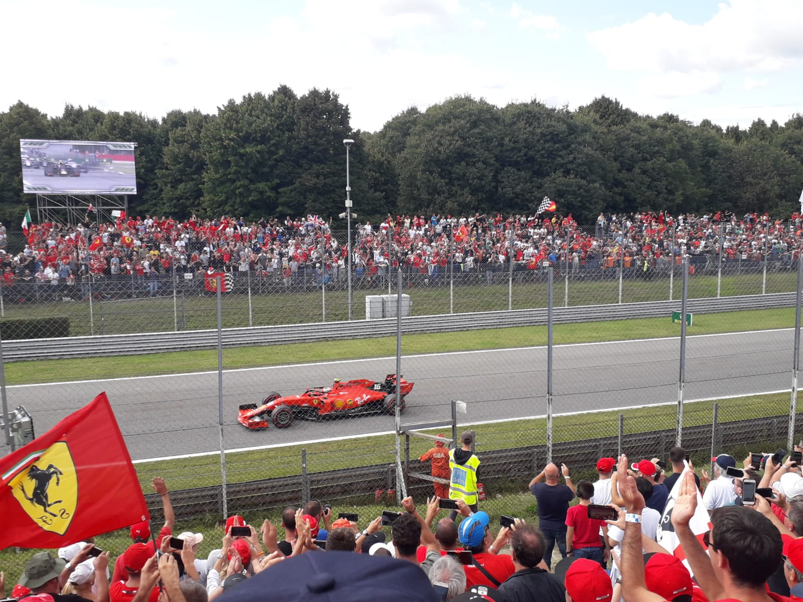 Charles Leclerc at 2019 Italian GP in Monza.